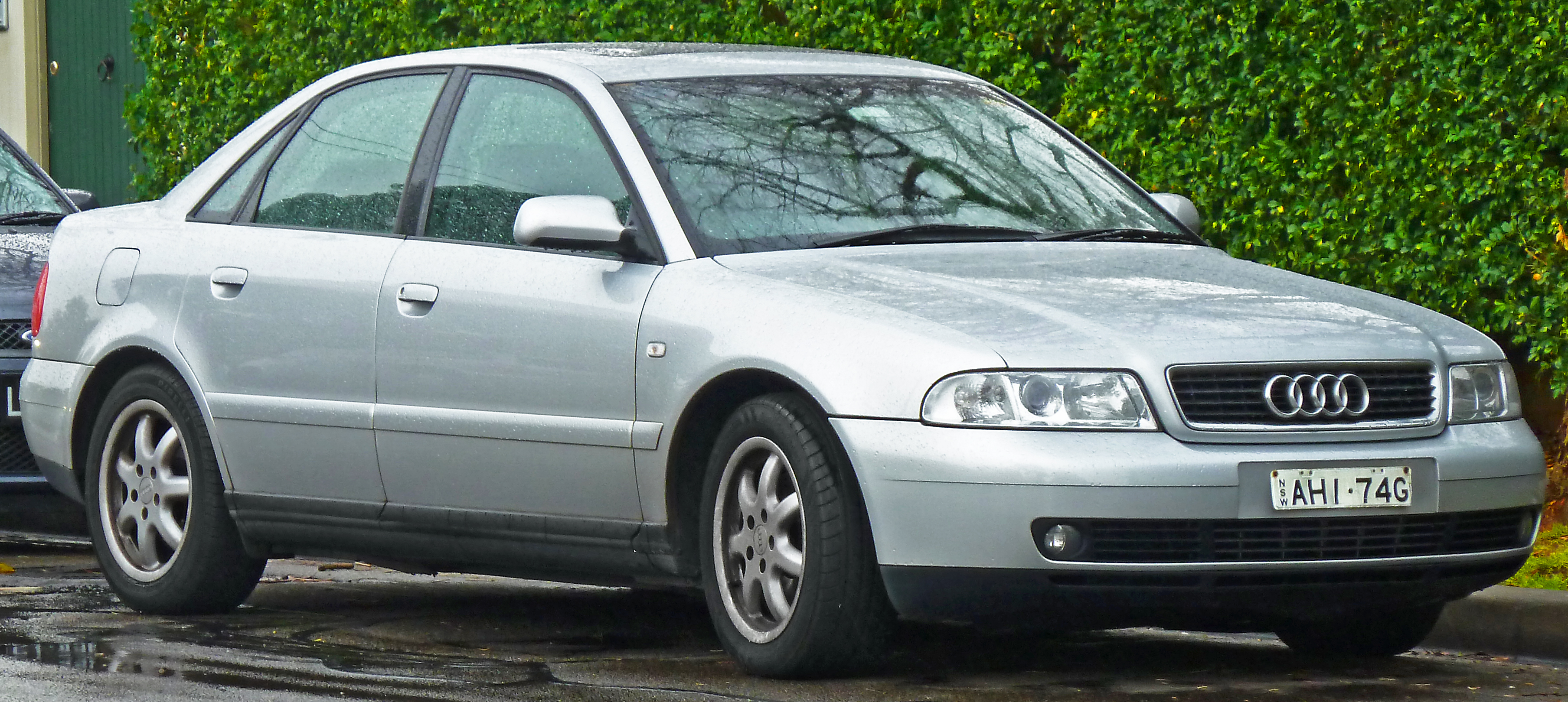 1999–2001 Audi A4 (8D) 1.8 T quattro sedan. Photographed in Chatswood, New South Wales, Australia.